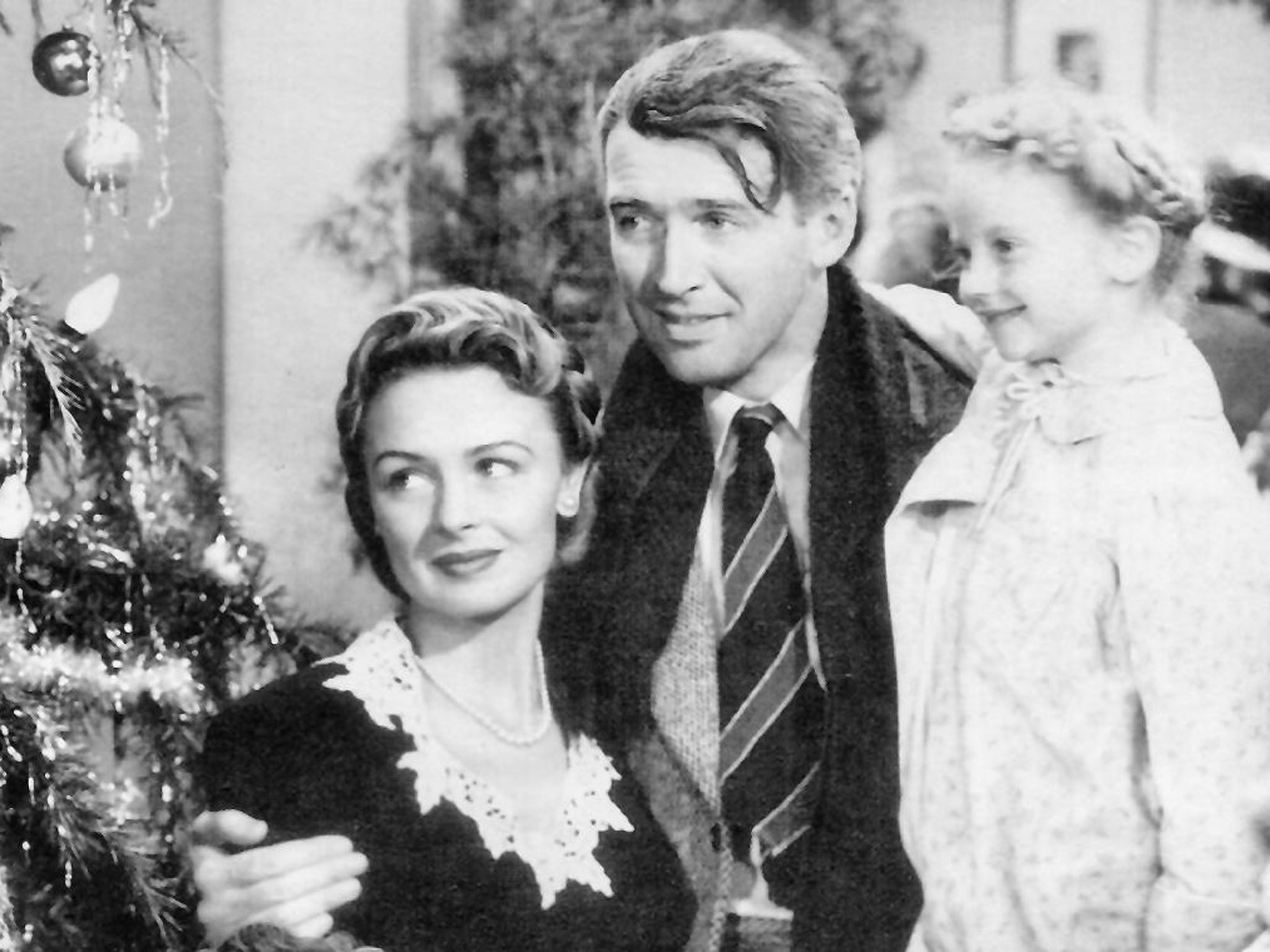 Screenshot of Jimmy Stewart, Donna Reed, and Karolyn Grimes in the American film It's a Wonderful Life (1946). The film lapsed into the public domain in the United States due to the failure of National Telefilm Associates, the last copyright owner, to renew. See film article for details.